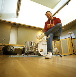 A picture of Brian Deck